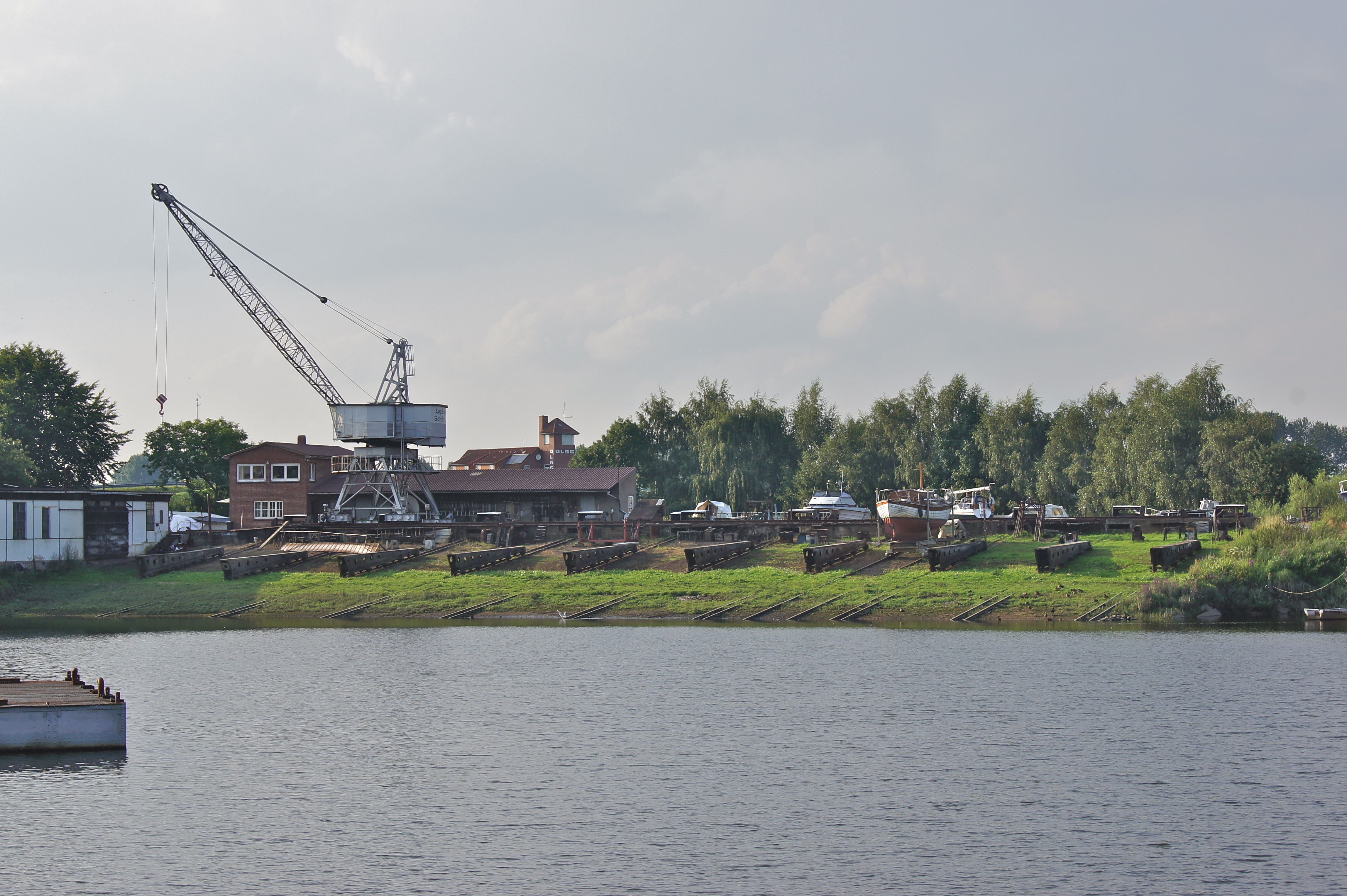 Winsen (Luhe) (Stöckte), Germany: Aug. Eckhoff warft in the Port on the Ilmenau river